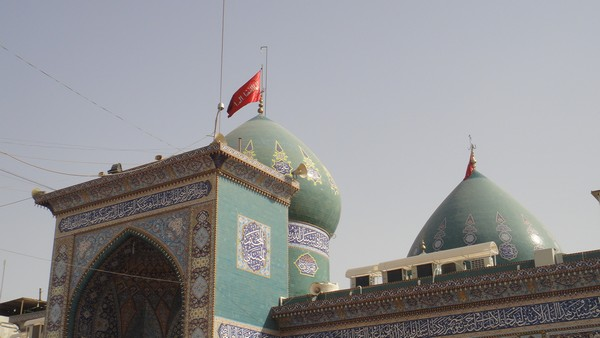 imam Hussein Camp in karblaa